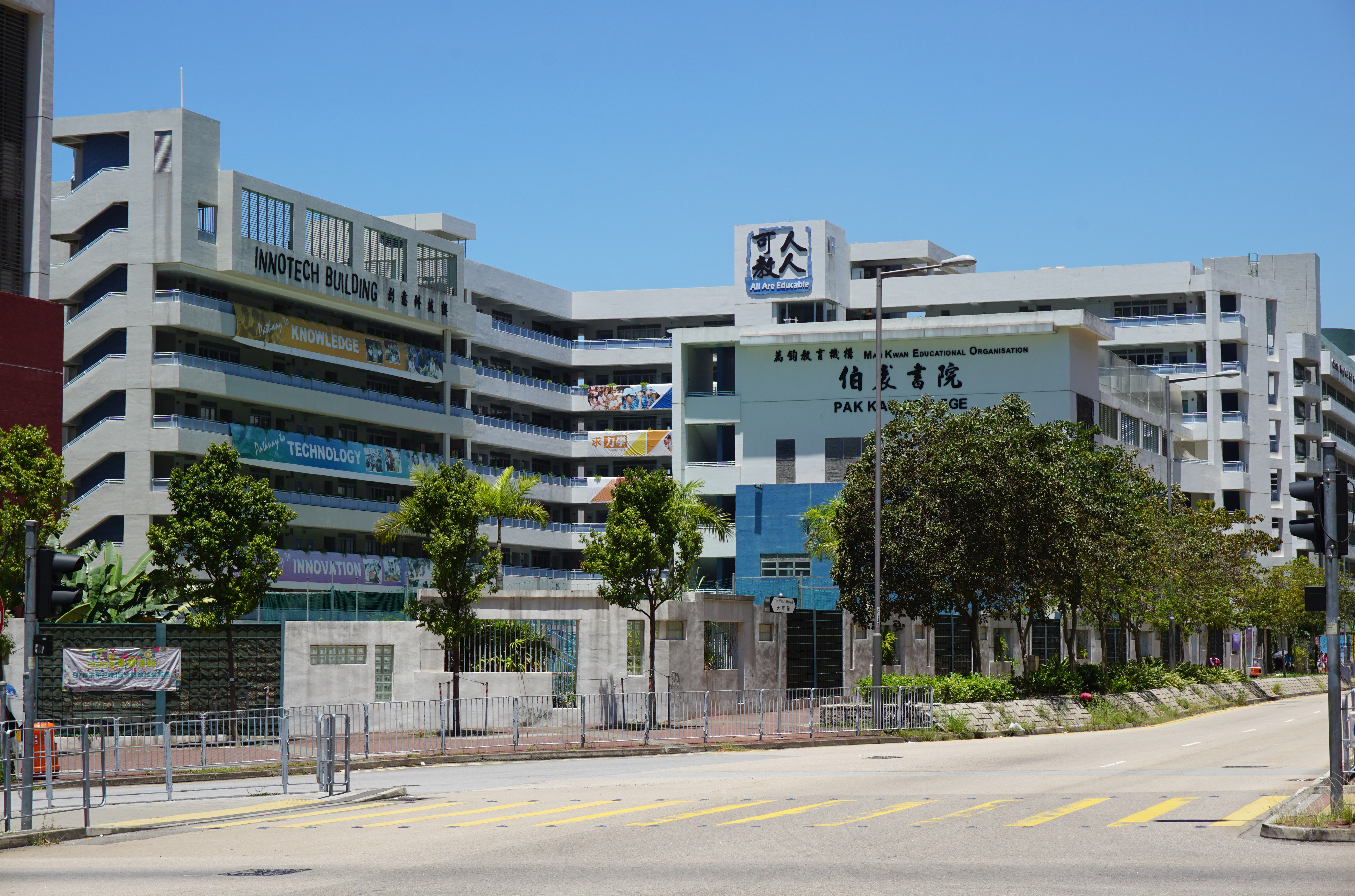 Pak Kau College in Tin Shui Wai, Hong Kong.